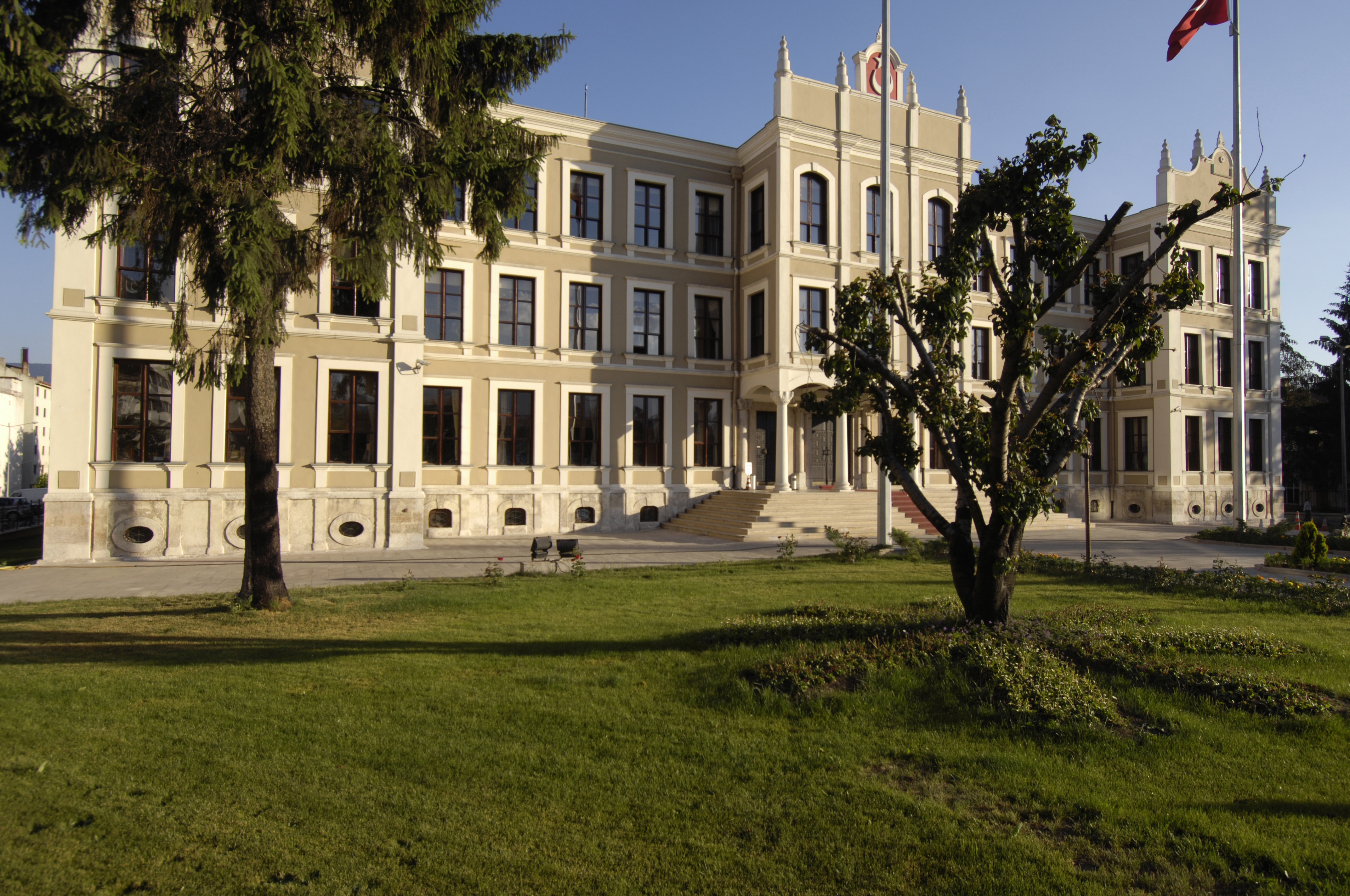 The provincial government building, seat of the governour. I have no further information.